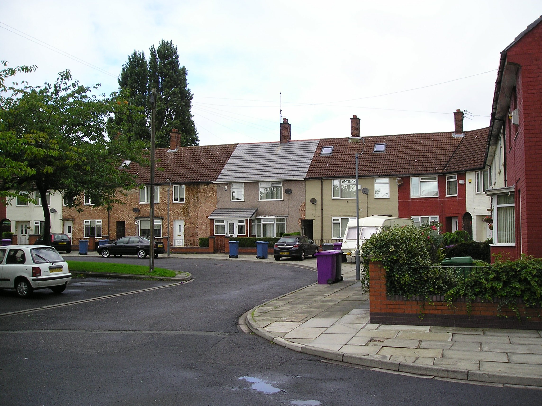 25 Upton Green, Liverpool Speke, the house where George Harrison lives until Oktober 1962